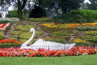 Summer bedding Summer bedding in Stapenhill Gardens